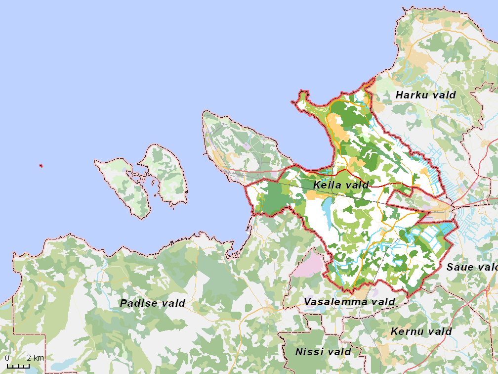 Map of municipality in Estonia